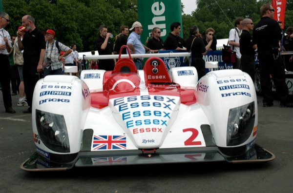 A Zytek 06S at the 2006 24 Hours of Le Mans